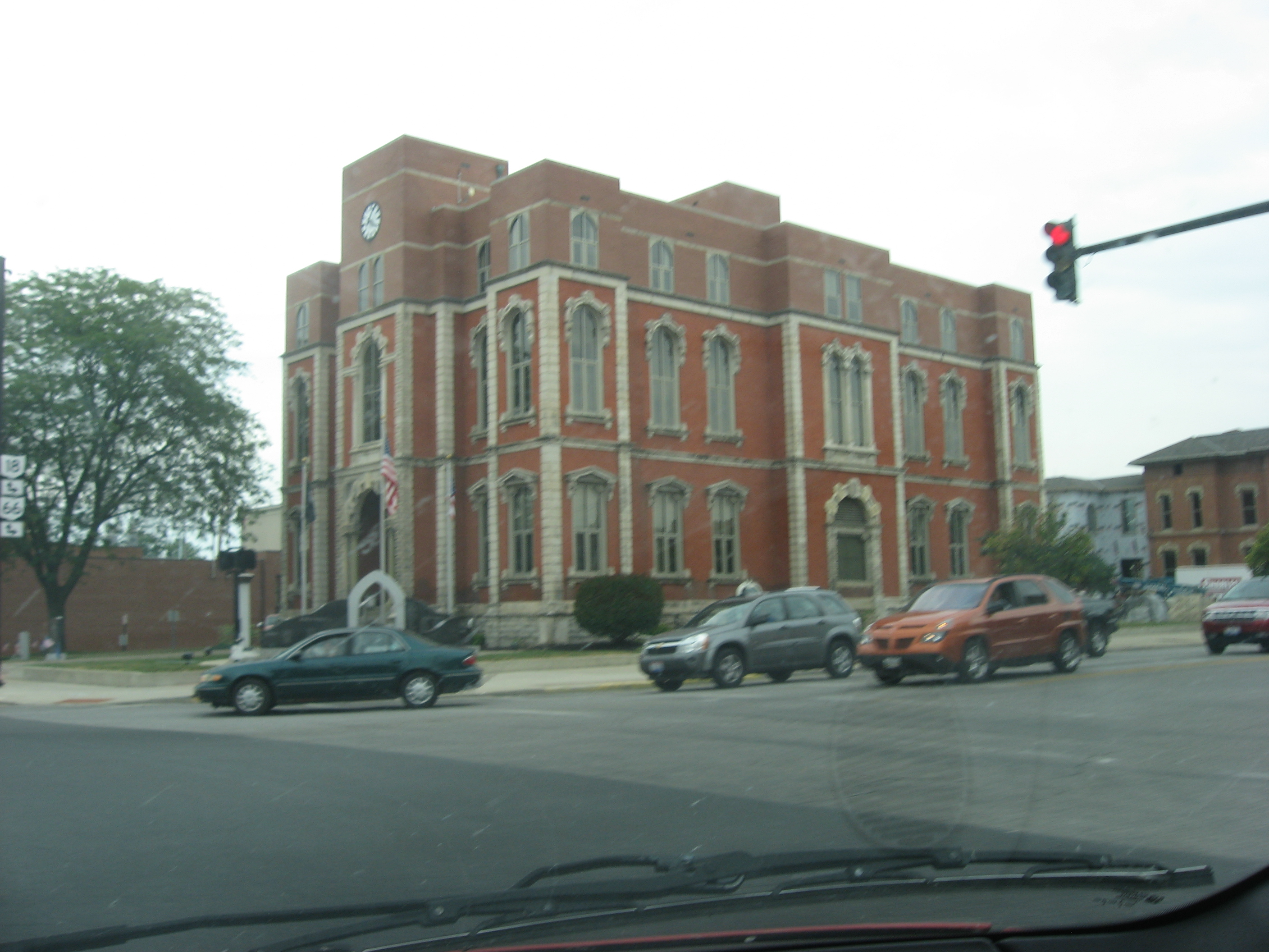 Front of the Defiance County Courthouse, located at 221 Clinton Street in Defiance, Ohio, United States.